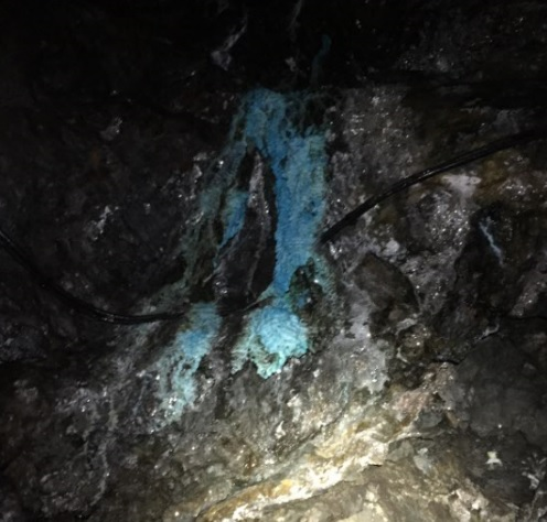 Natural copper hydrated precipitate in an old iron mine near Irun, Spain.